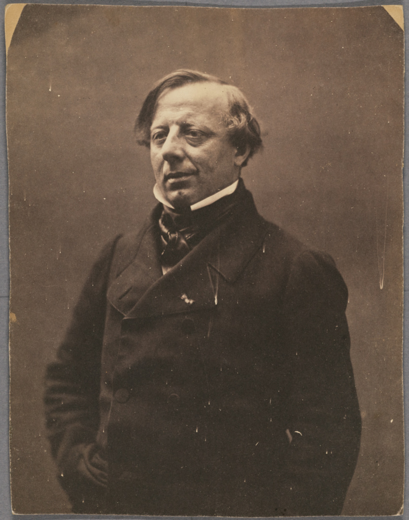 [Jacques-Alexandre] Bixio; Nadar, Gaspard Félix Tournachon (French, 1820 - 1910); 1855–1859; Salted paper print; 21.4 × 16.4 cm (8 3/8 × 6 1/2 in.); 84.XM.436.285